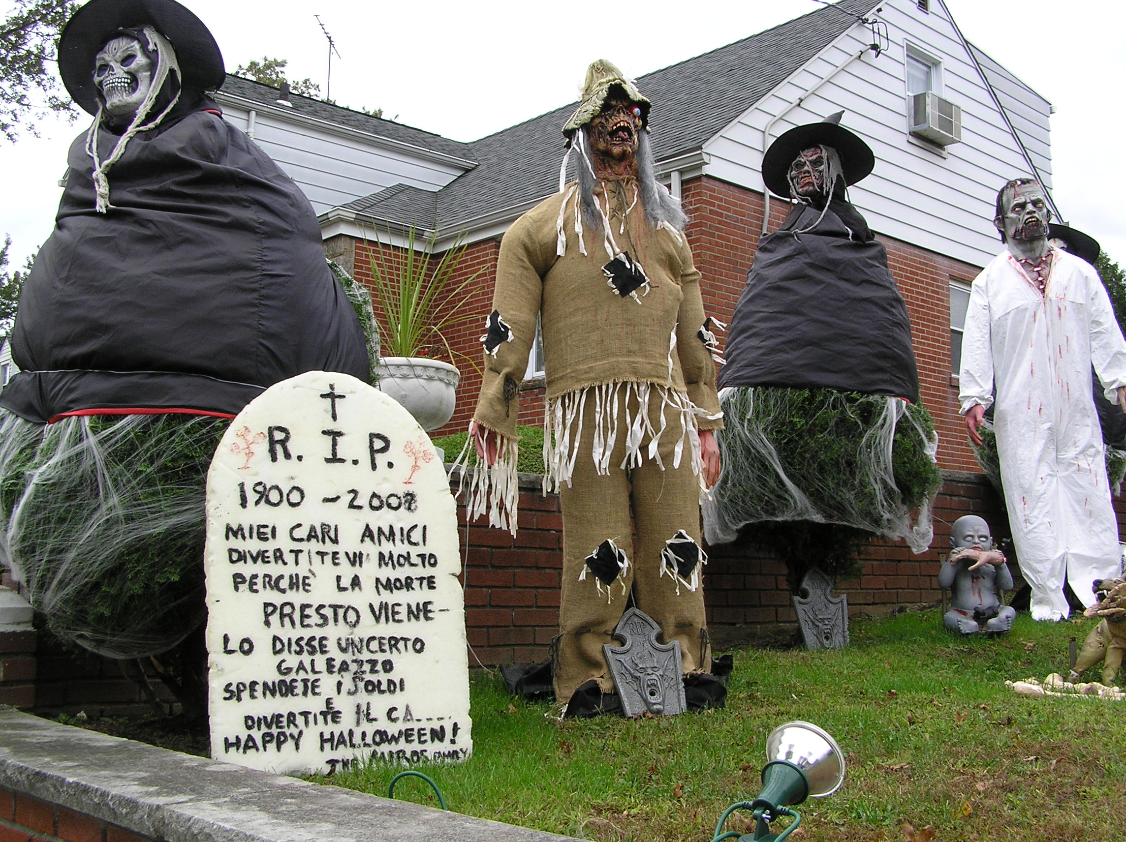 Creepy Halloween giants in Yonkers, NY